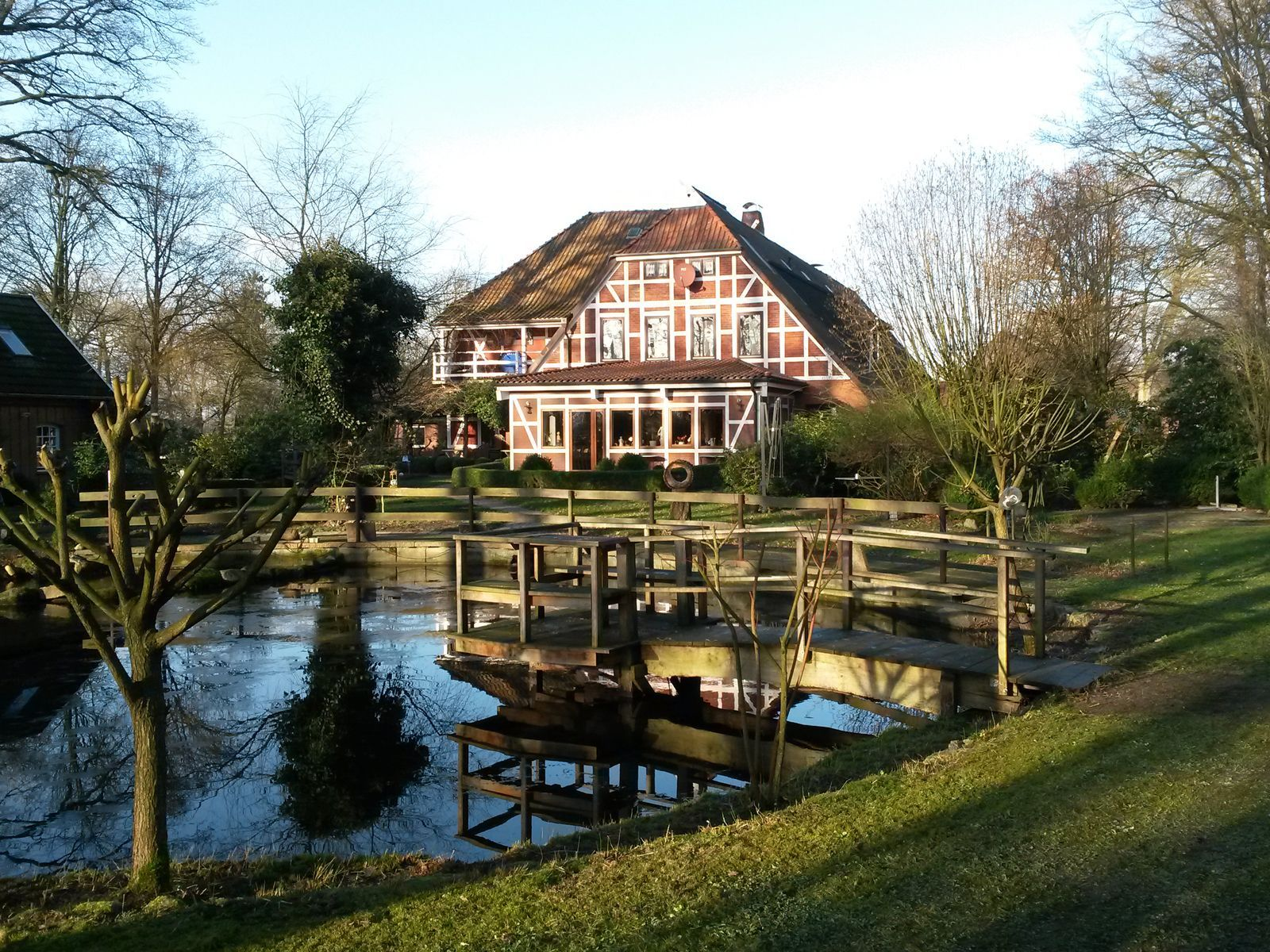 Hof Quellen